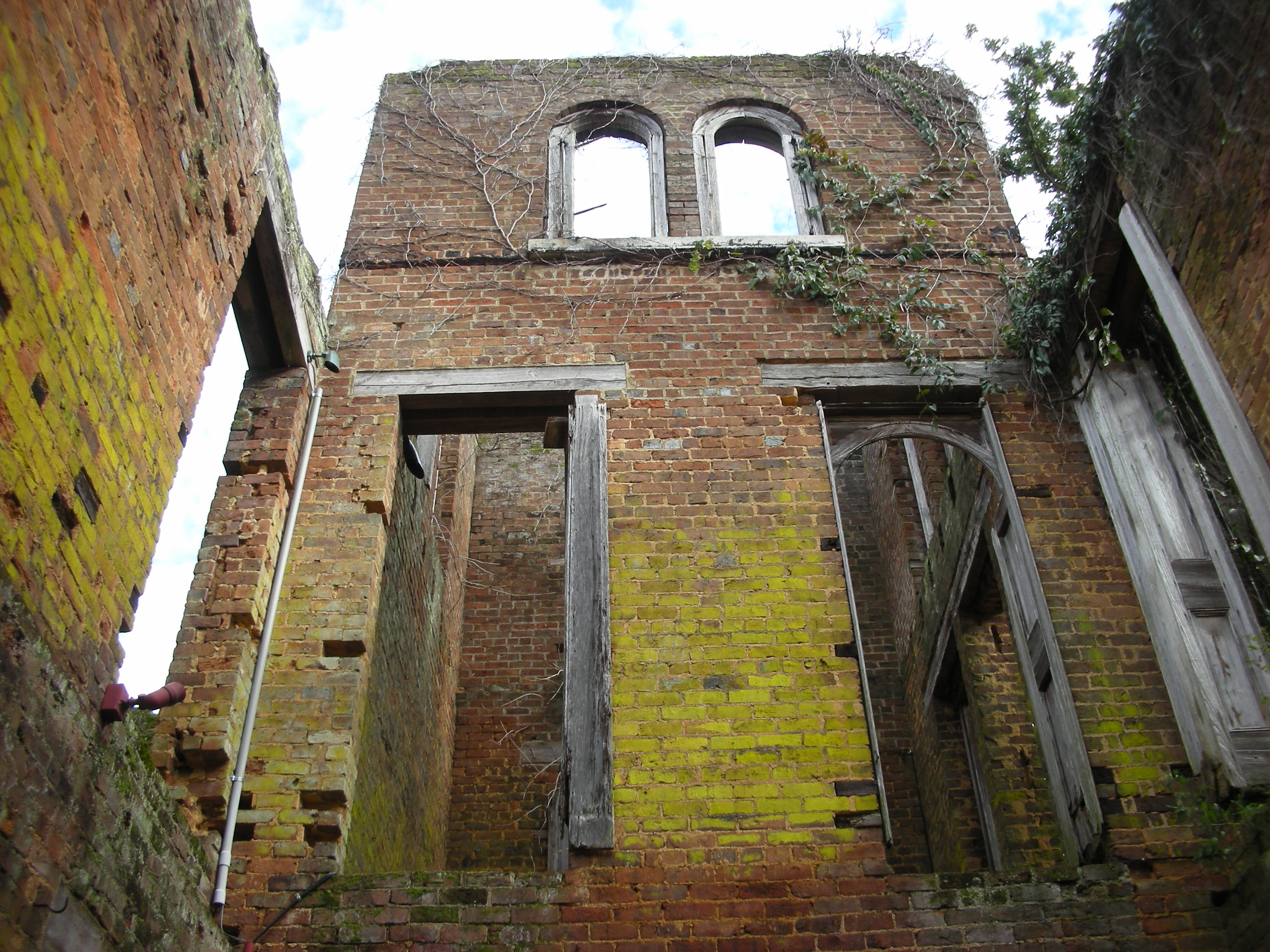 Inside of Woodlands Manor ruins (view of tower). The ruins are located in Barnsley Gardens resort in Adairsville, Georgia.